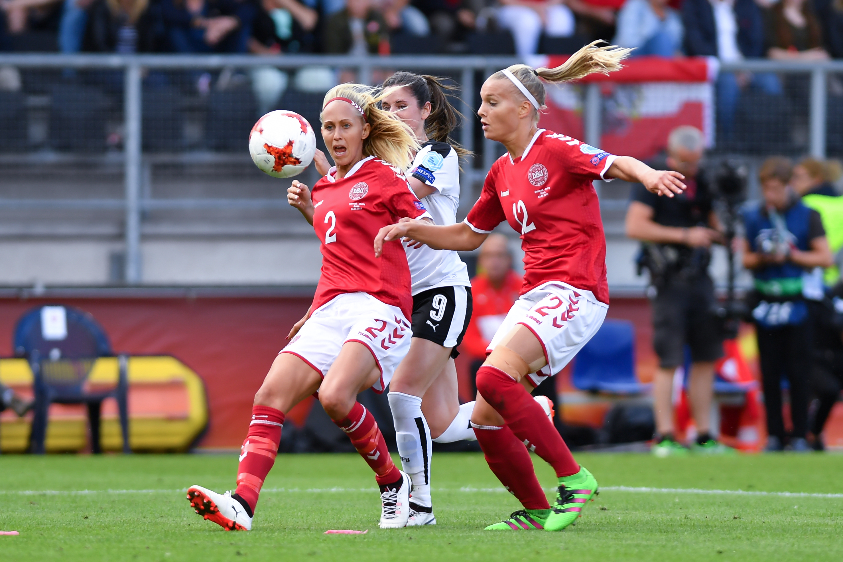 3/8/2017, Breda, Netherlands, sports, soccer, UEFA Women's Euro 2017 - Semifinal - Denmark vs Austria.